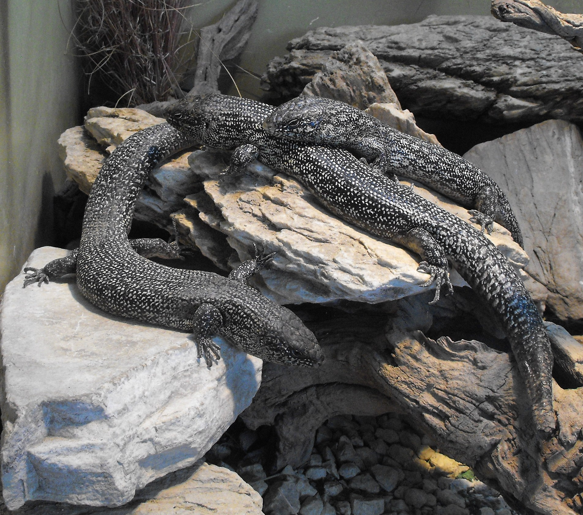 Egernia kingii at the San Diego Zoo, California, USA.